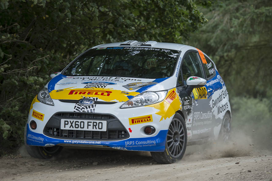 Rally Germany 2012 ADAC Rallye Deutschland,Elfyn Evans,Ford Fiesta R2,Motorsport,Philip Pugh,Rally,Rallye,Rallye Deutschland,SS10,Stein & Wein 2,WP10,WRC